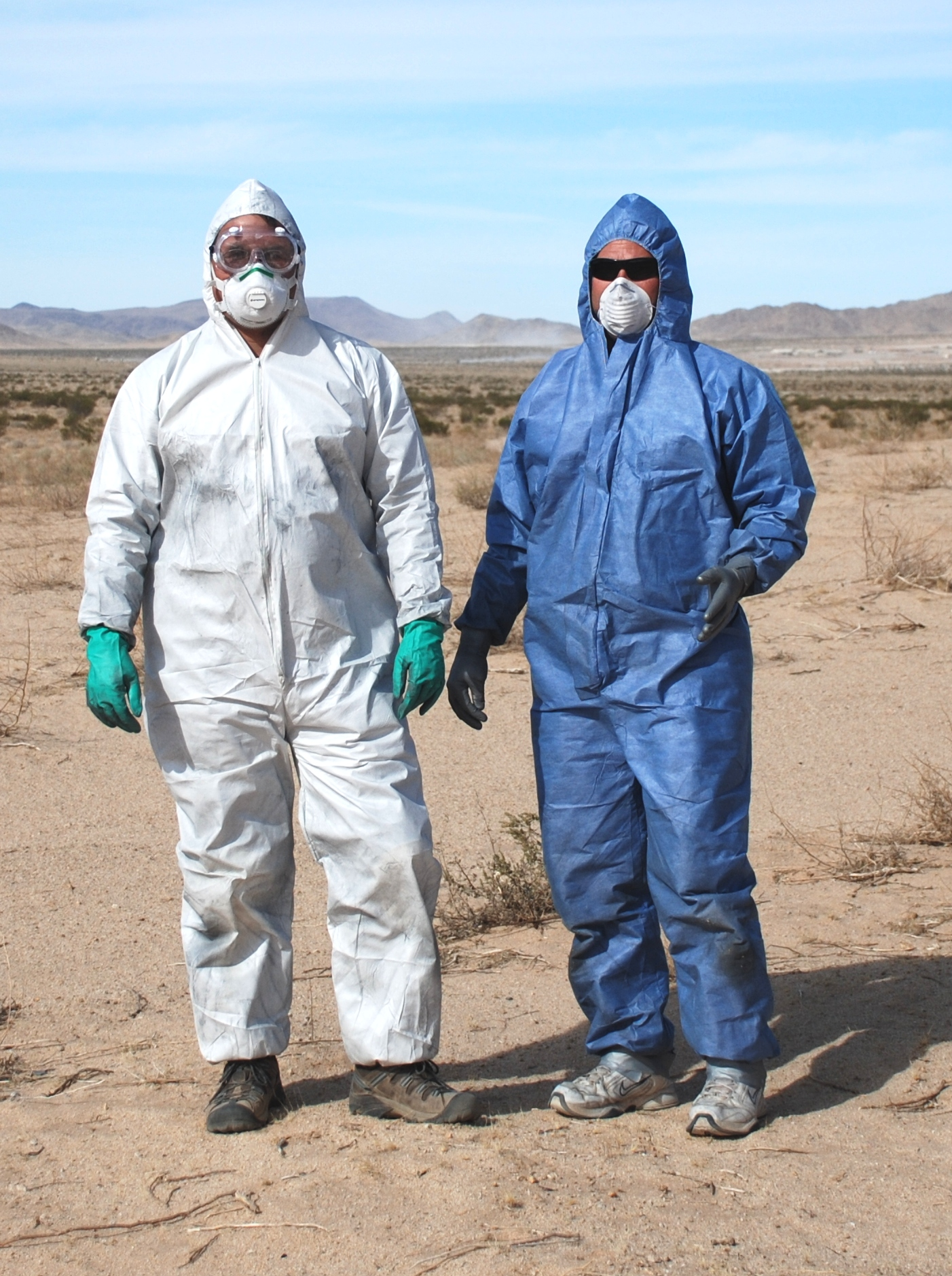 Tyvek coverall suits